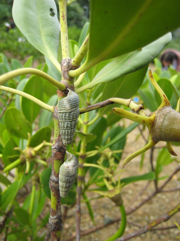 Cerithidea rhizophorarum sticked onto the Kandelia obovata. Cerithidea rhizophorarum is a common cerith found in grass covered mangroves at the backside of the shore. The apical tip of the spire is usually eroded.